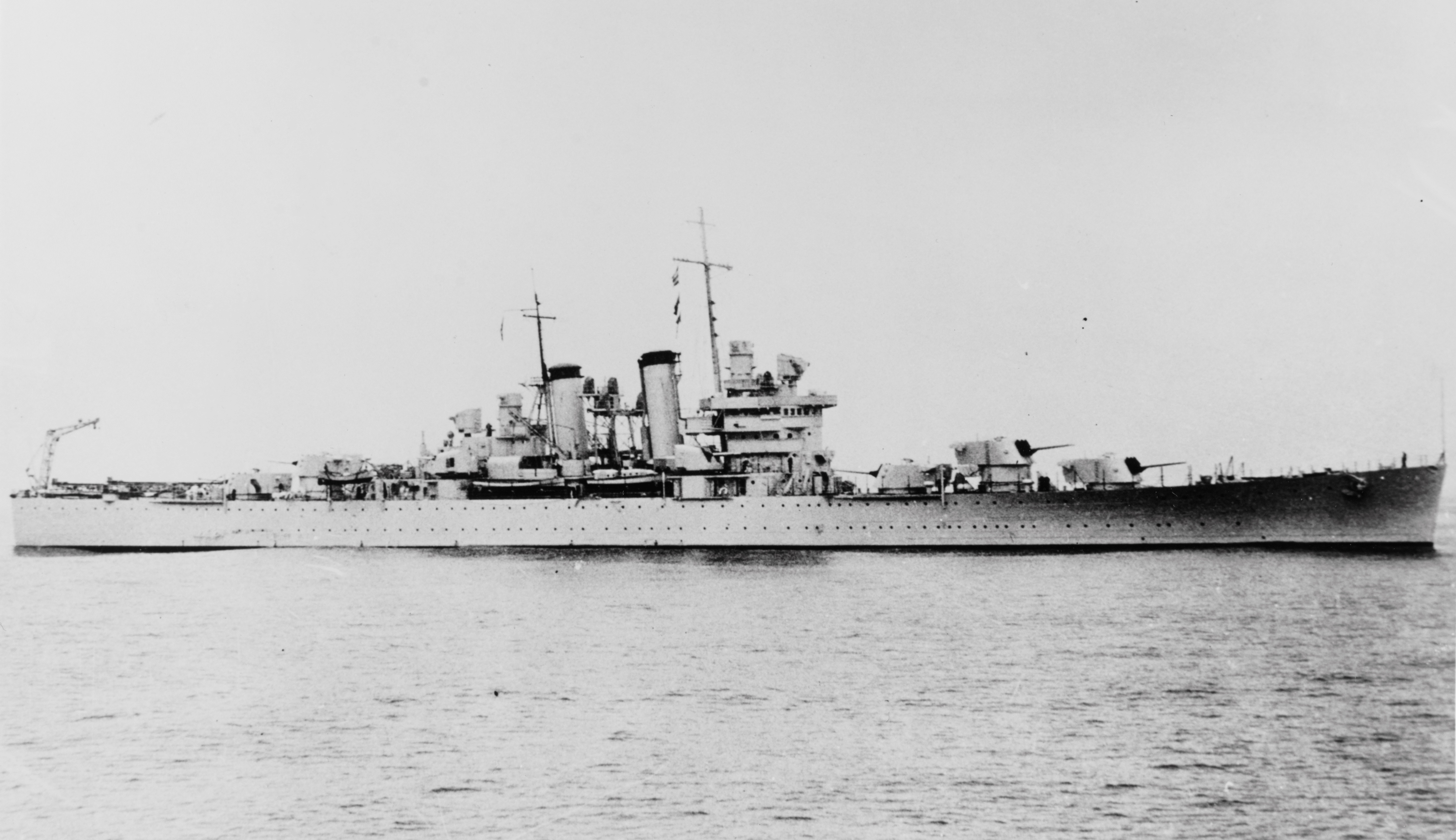 The United States cruiser USS Helena (CL-50), c. 1940. Courtesy of the U.S. Naval Institute Photograph Collection, Annapolis, Maryland. U.S. Naval History and Heritage Command Photograph.